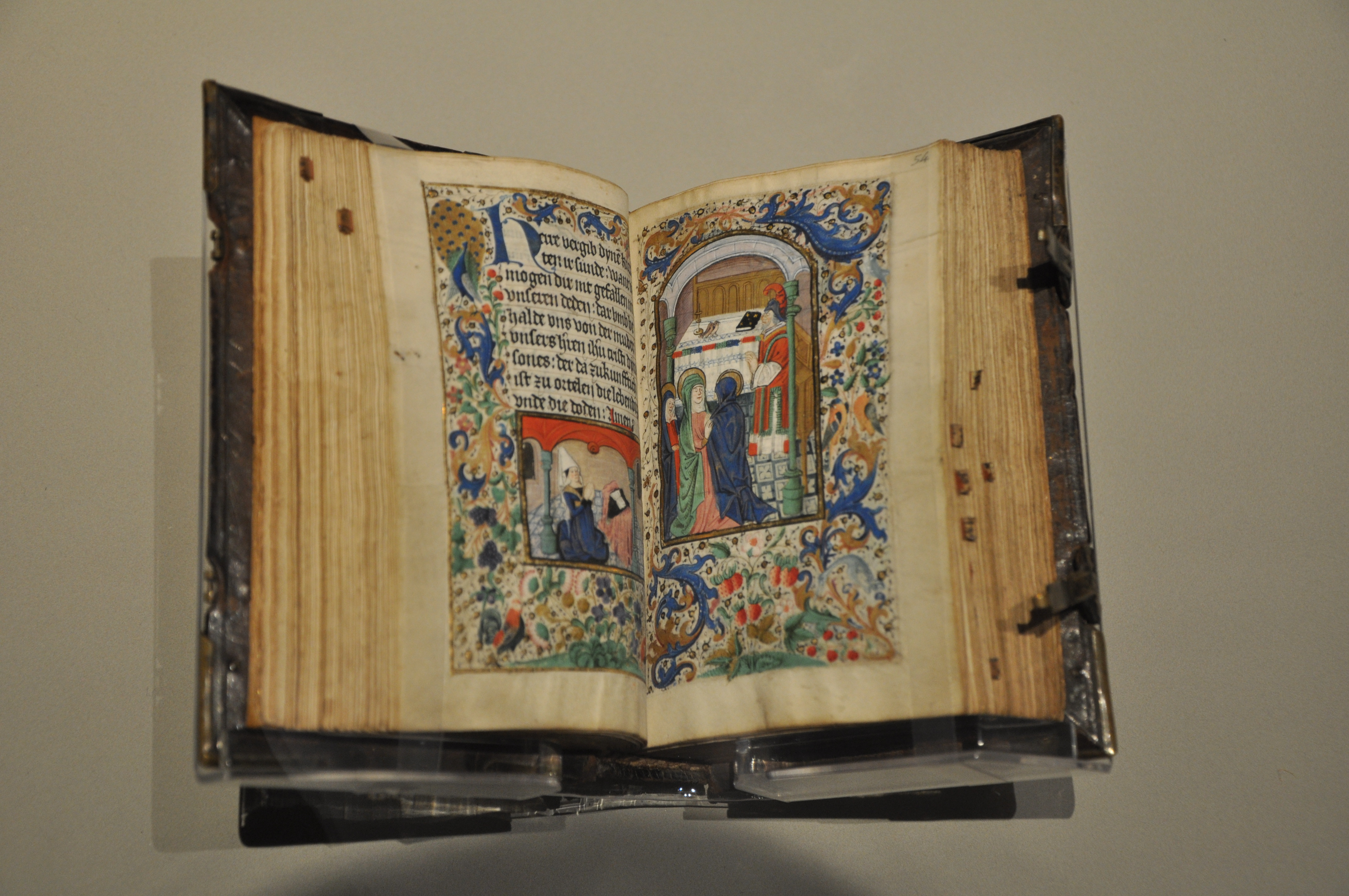 Book of hours. Illumination from the southern netherlands and Text from Germany/upper Rhine 1480-90. Victoria and Albert Museum.